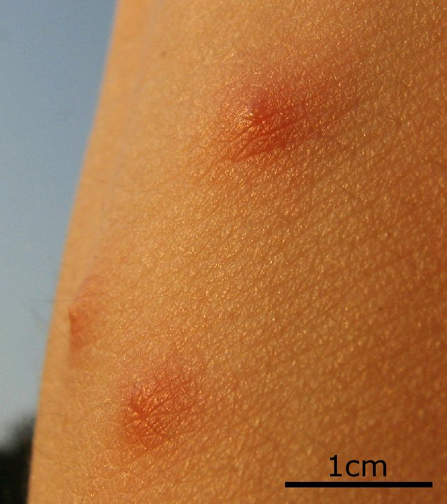 Bites of Orius sp. after one day. Bitten in Nettersheim, Germany. Location on arm near right inner wrist; distance between two upper bites ca. 2cm.